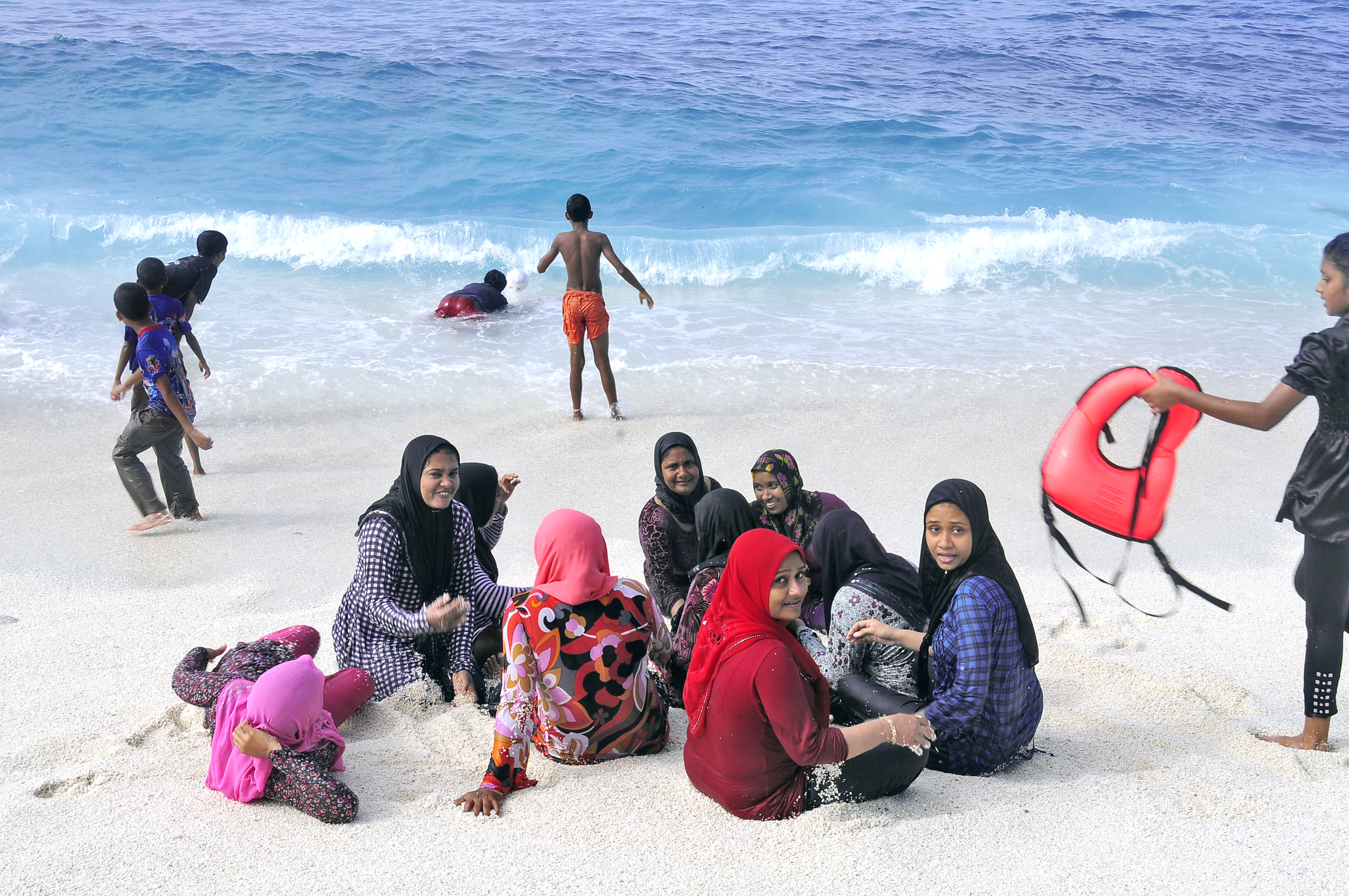 Maahefun Festival in Fuvahmulah was held in July 31st 2011 and attended more then 4000 peoples from Fuvahmulah and other islands of Maldives.